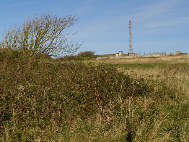 View towards the nuclear bunker Apparently there is a cold-war nuclear bunker in the area beyond the stone wall, beneath the mast. The fenced-off area is to the south-east of The Verne.